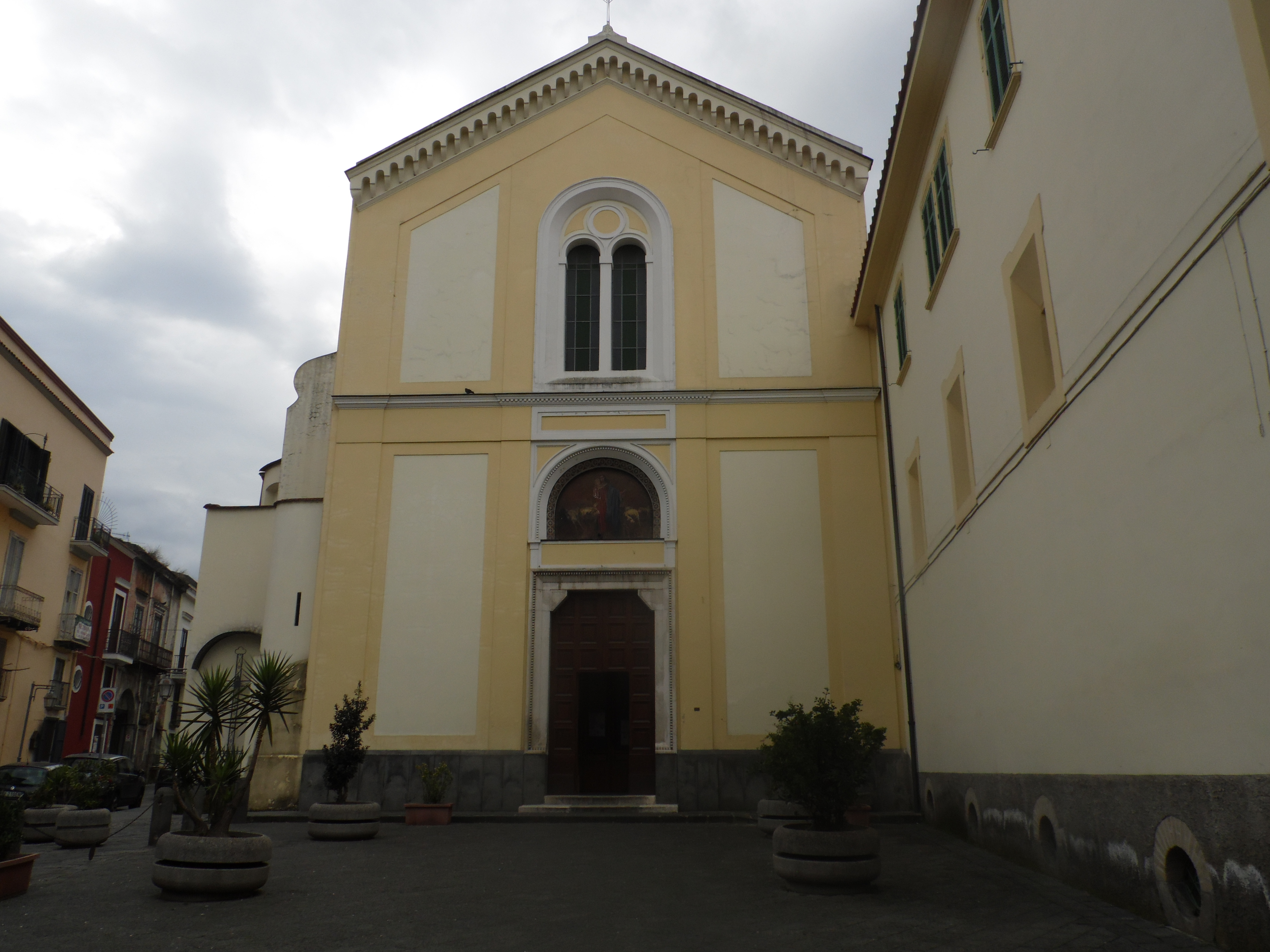 Pomigliano d'Arco, San Felice